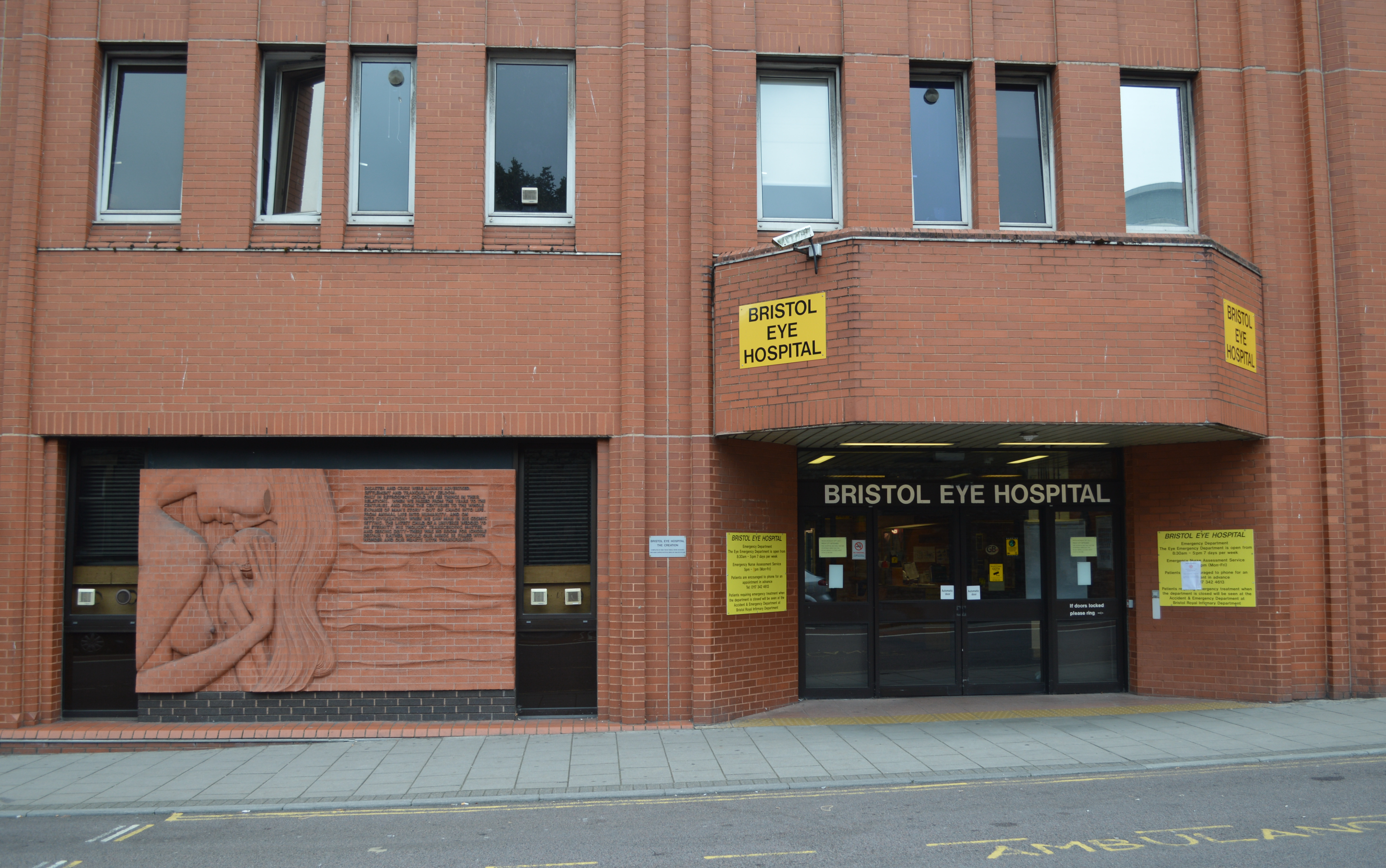 Entrance and one of five art works, called The Creation, at Bristol Eye Hospital. The quotation in the art work is from the 1st Viscount Samuel (Herbert Samuel).